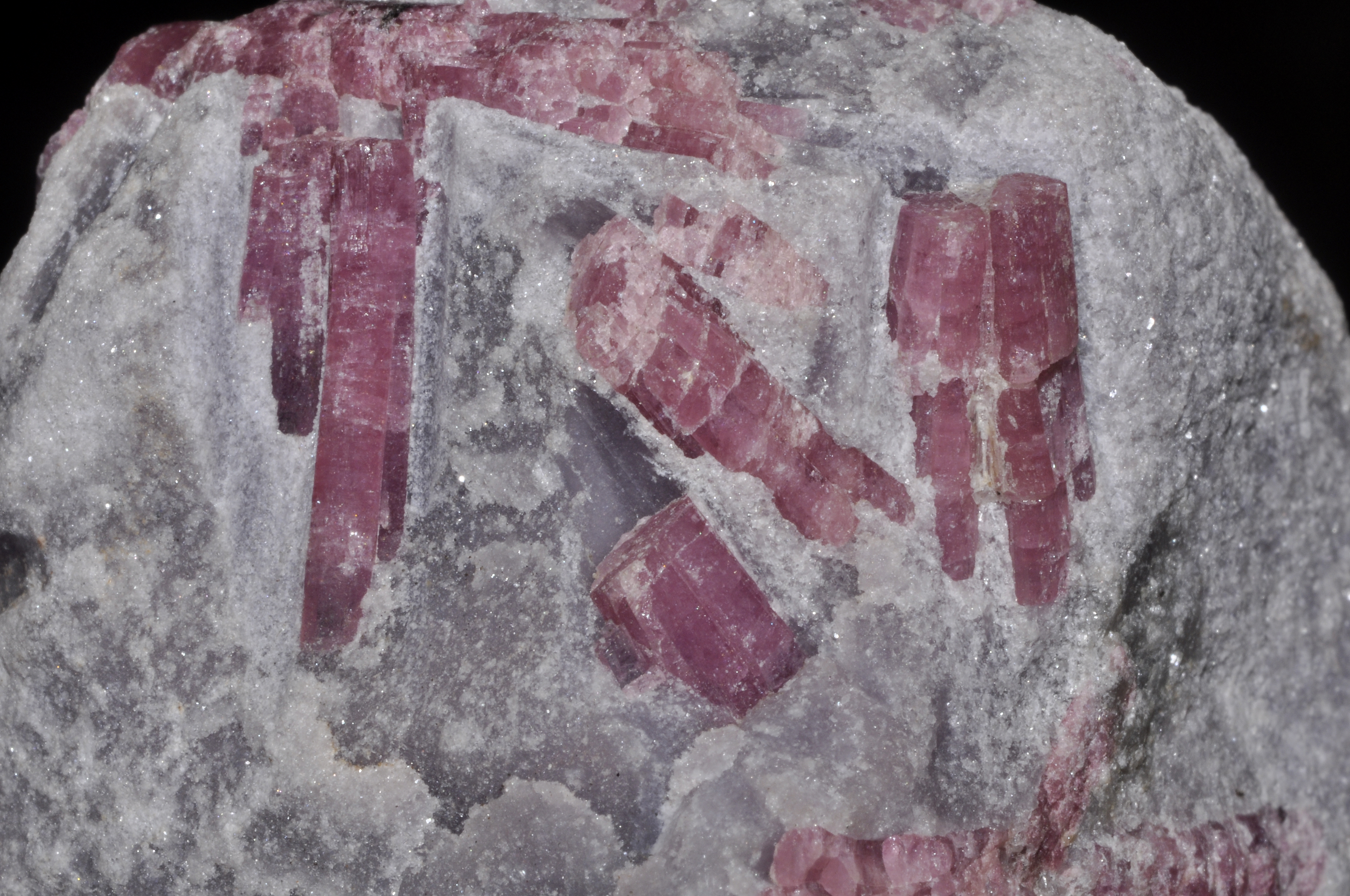 Rubellite and Quartz